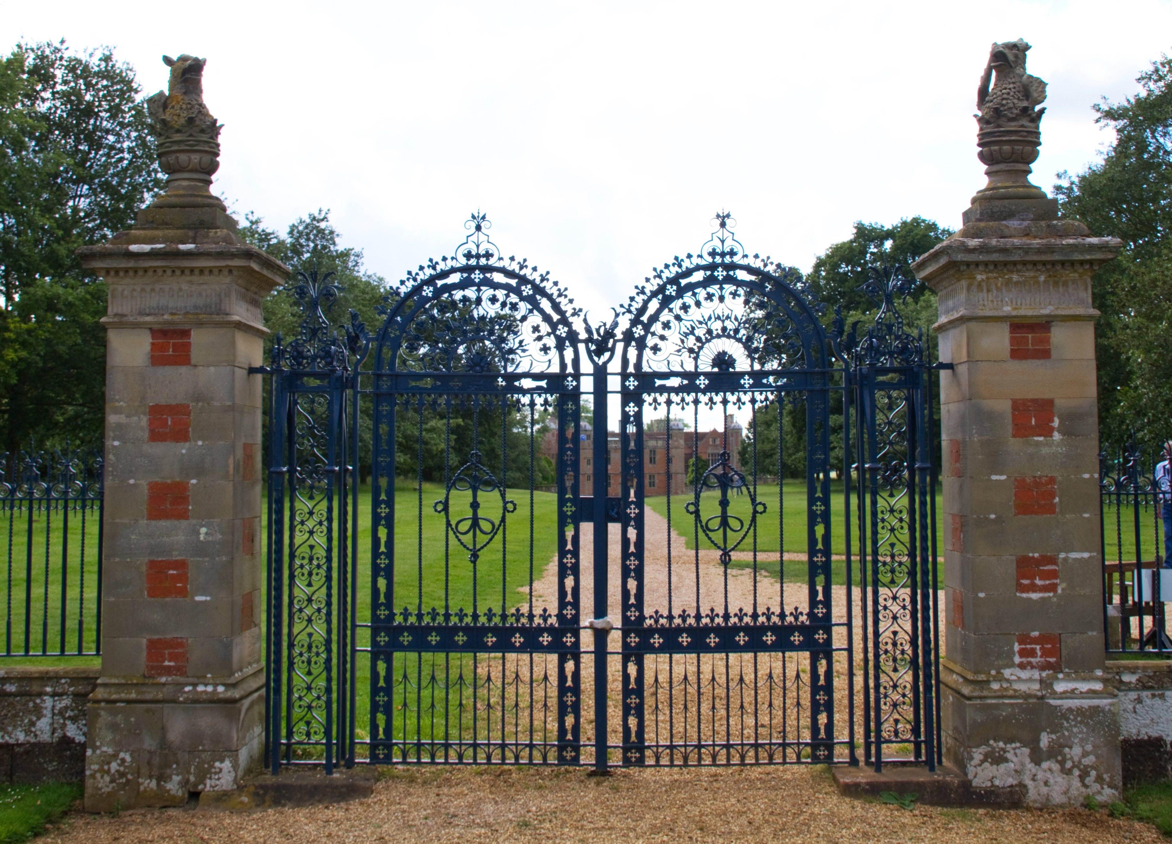 East Gates of Charlecote Park, Warwickshire